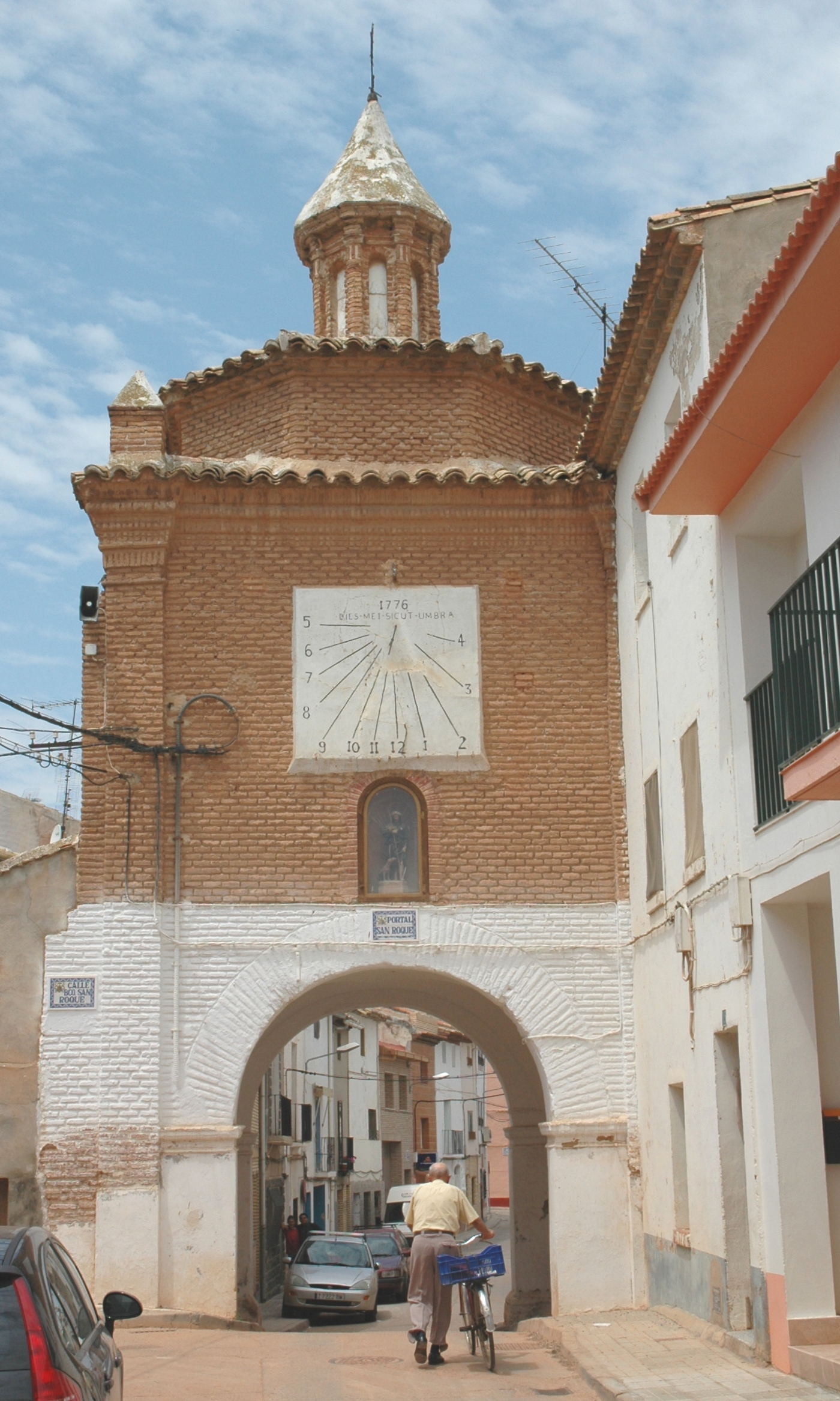 Brick gateway to the town of Quinto, Zaragoza Province, Spain